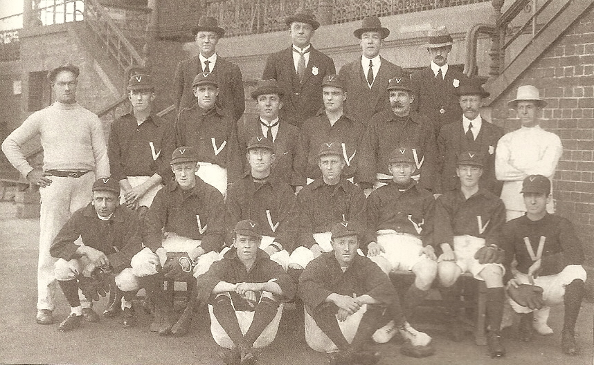 The Victoria baseball team at the Melbourne Cricket Ground in 1919. Bill Ponsford is front row, left. Jack Ryder (cricketer) is immediately behind Ponsford.